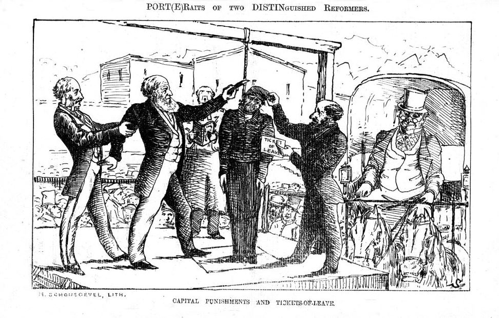 William Porter (left) and John Sweet Distin (right) as "Exeter Hall" liberal reformers. The Exeter Hall stereotype is seen in the carriage in the background and the Governor on the far left tries to pull Porter away.